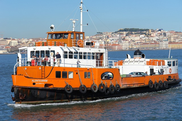 Alentejense Ferry in the Tagus River, near Cacilhas. 1957 Built by Estaleiros Navais de Viana do Castelo, Portugal IMO Number: 8966743 Photographer: Osvaldo Gago